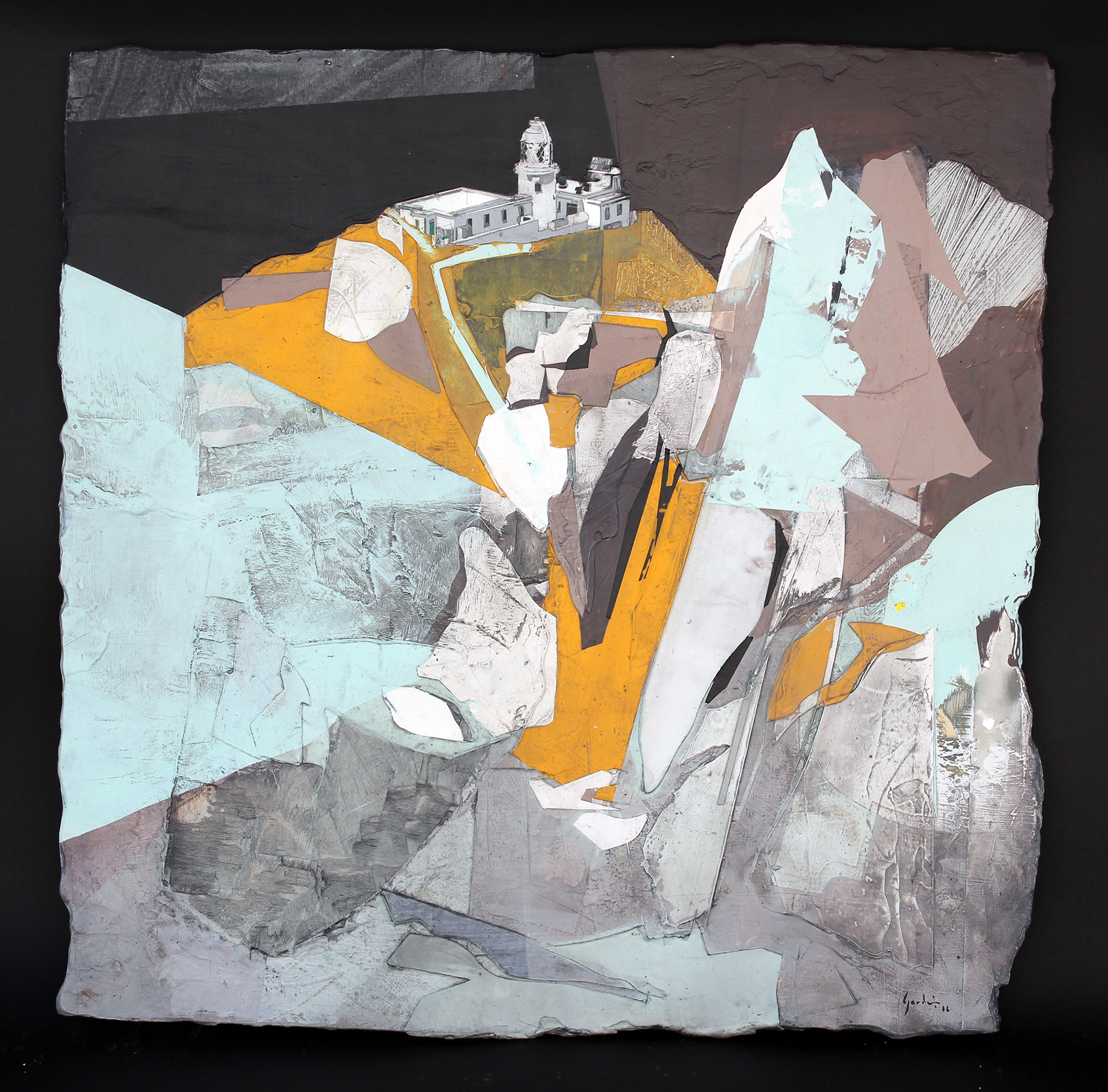 Summer Solstice, Lundy North Lighthouse. 24 x 24 ins (61 x 61 cms). Acrylic and poplar panel. By Jeremy Gardiner.